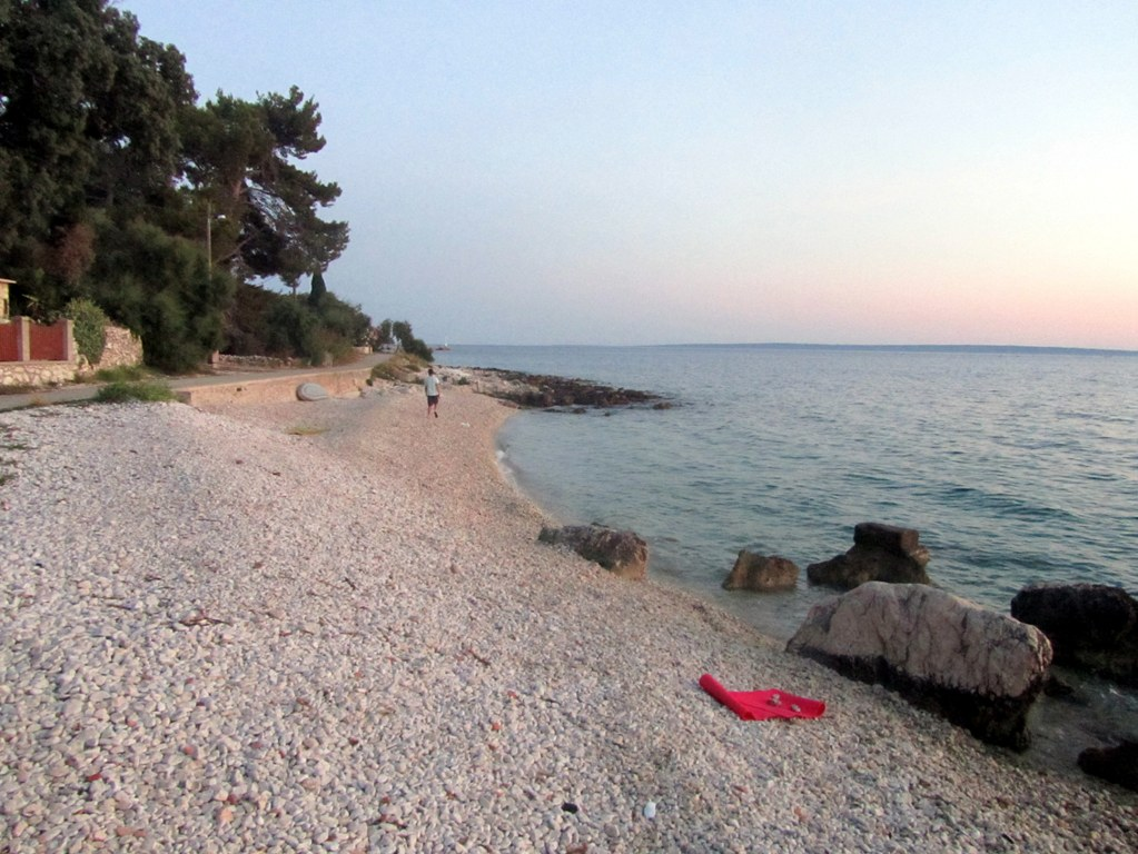 Silba beach, north of Carpusina bay